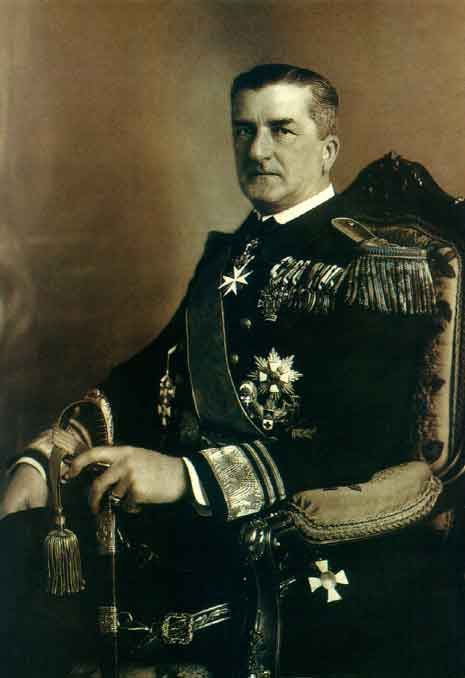 Miklós Horthy, Emlékirataim.